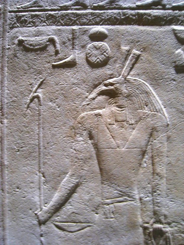 Reliefs of the funerary temple of Sahure. The god « Set of Nubt » - 5th dynasty of Egypt - Egyptian museum of Berlin